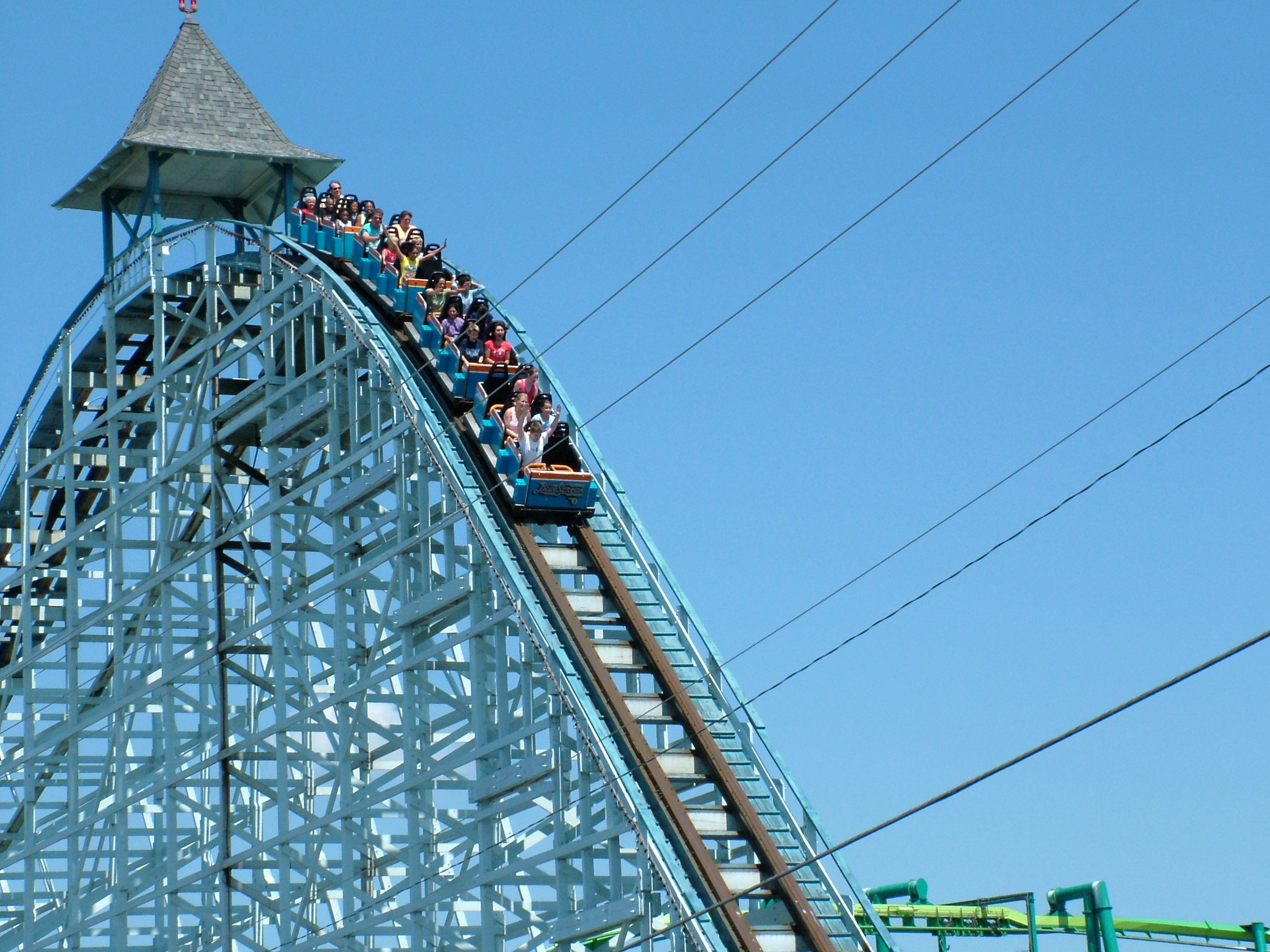 Subject: Blue Streak at Cedar Point in Sandusky, OH Author: Nick Nolte Taken: August 8, 2004